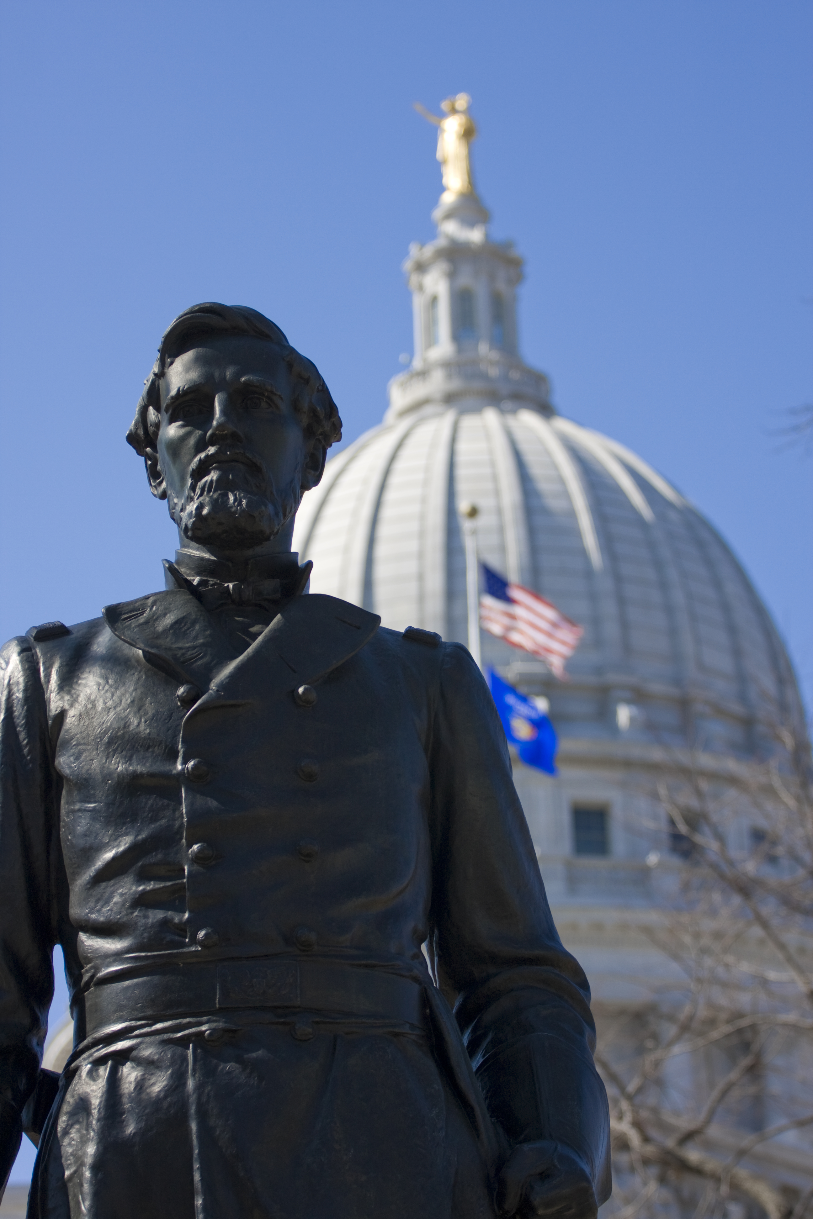 Statue of Hans C. Heg, in front of the Wisconsin State Capitol.